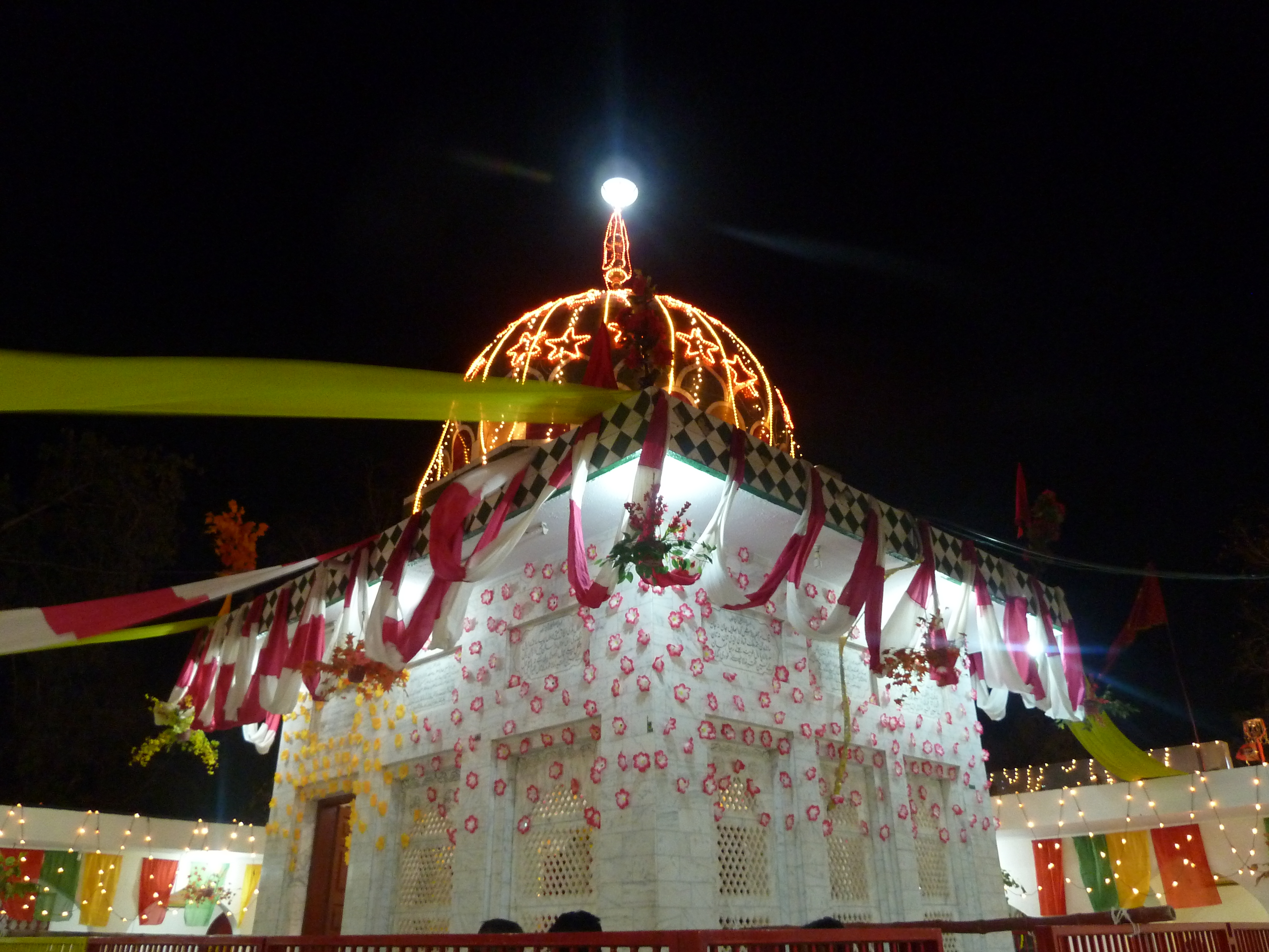 A view of the shrine of Maddho Lal Hussain during the annual Mela Chiraghaan, Lahore. This is a photo of a monument in Pakistan identified as the PB-P-107